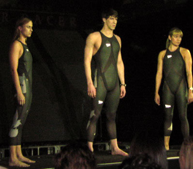 The LZR Racer Suit is unveiled at a press conference in New York City. Michael Phelps is at center, with Natalie Coughlin to his left and Amanda Beard to his right.